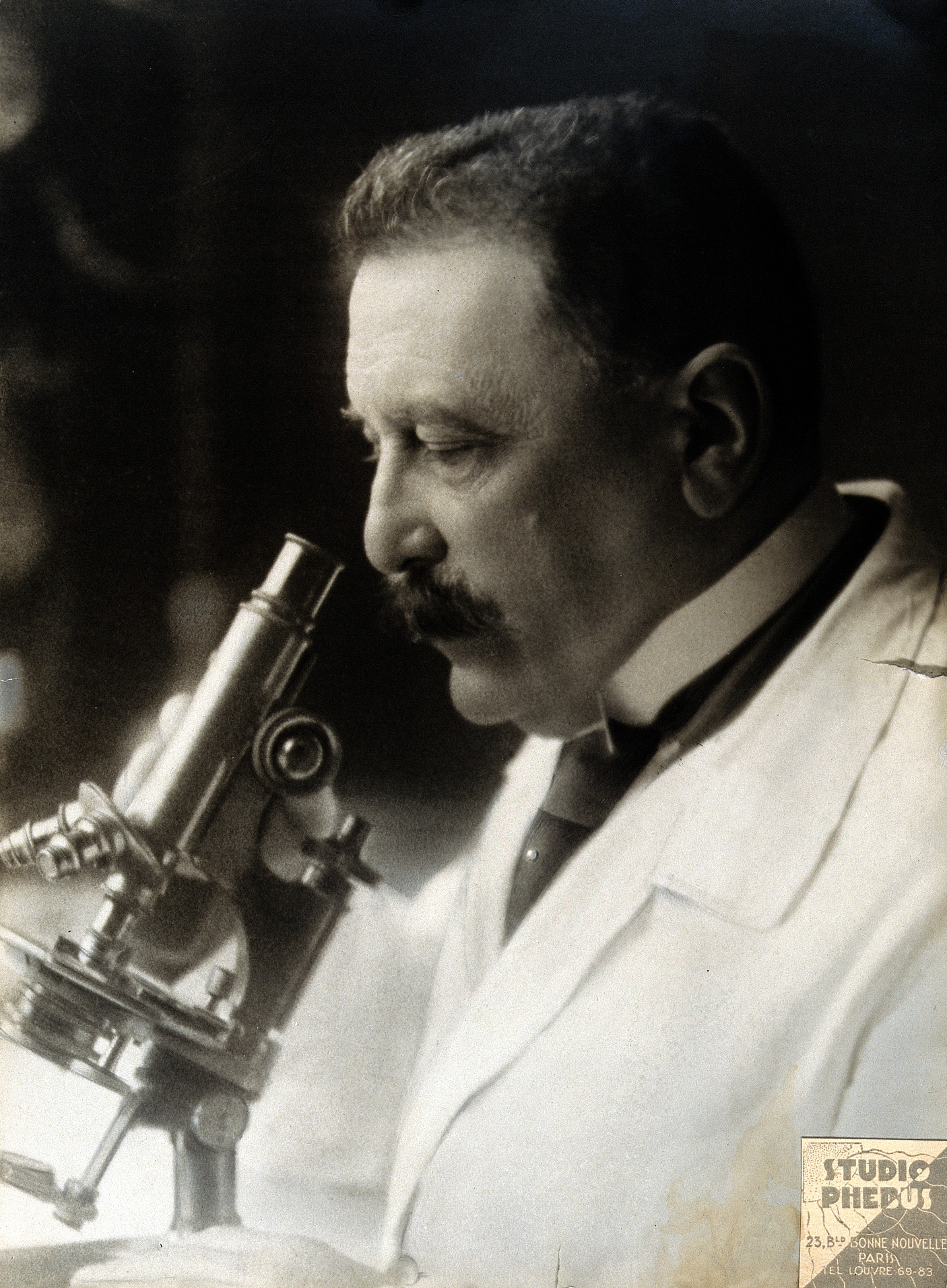 Georges Fernand Isidore Widal. Photograph by Studio Phebus. Iconographic Collections Keywords: portrait photographs